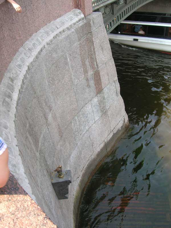 Chizhyk-Pyzhik statue in Saint Petersburg, Russia